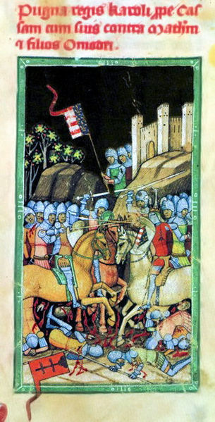 The picture shows the Rozgony battle (Hungary) in 1312.